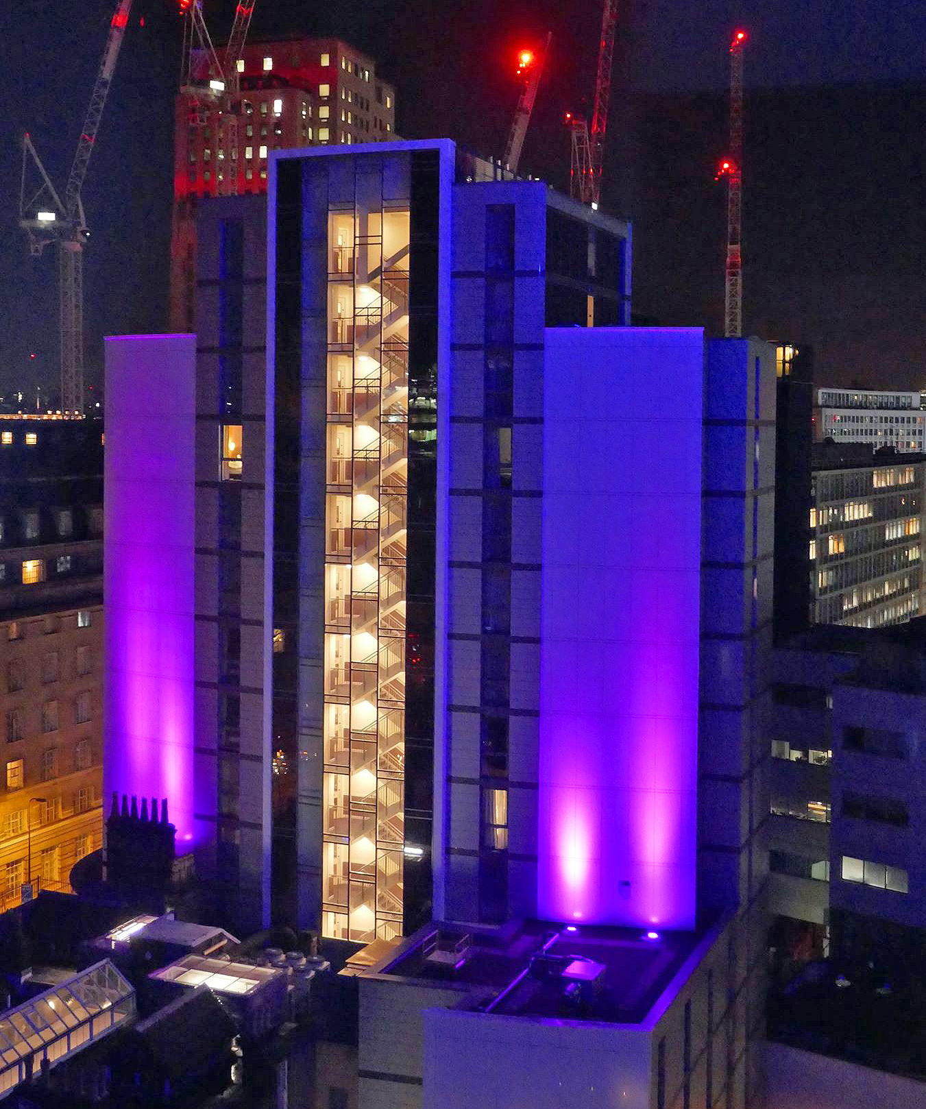 Premier Inn Waterloo, 2016.